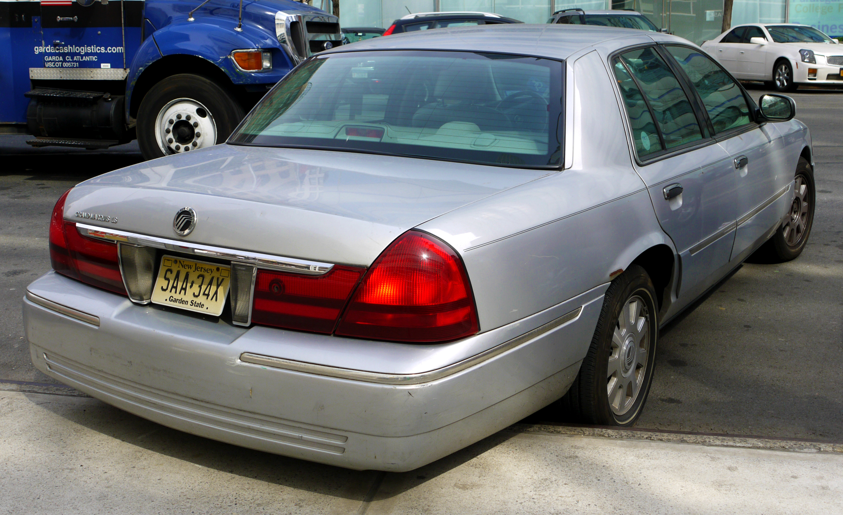 2003 Mercury Grand Marquis LS. One of my favourite american cars.